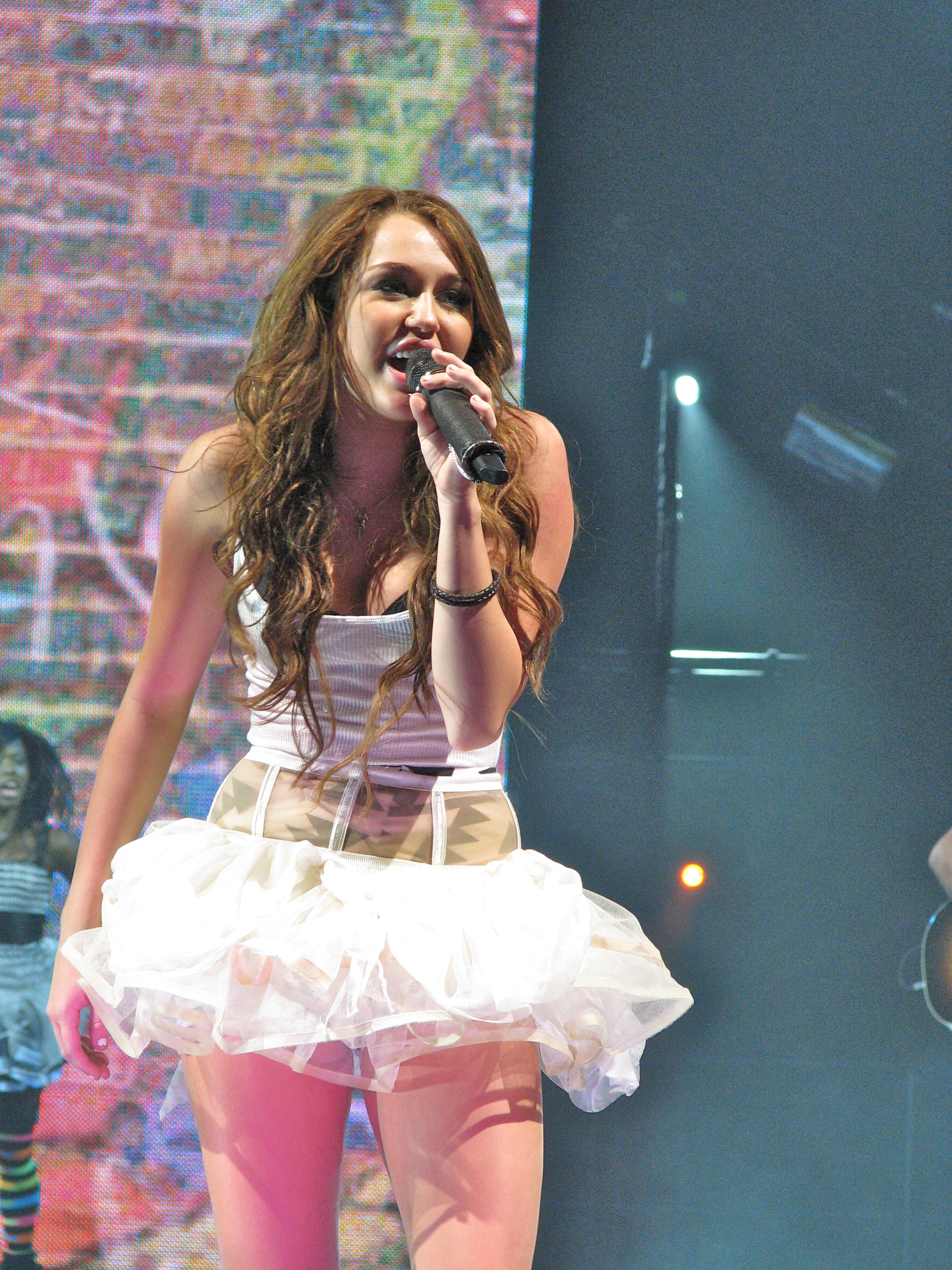 Miley Cyrus performs on 14 September 2009